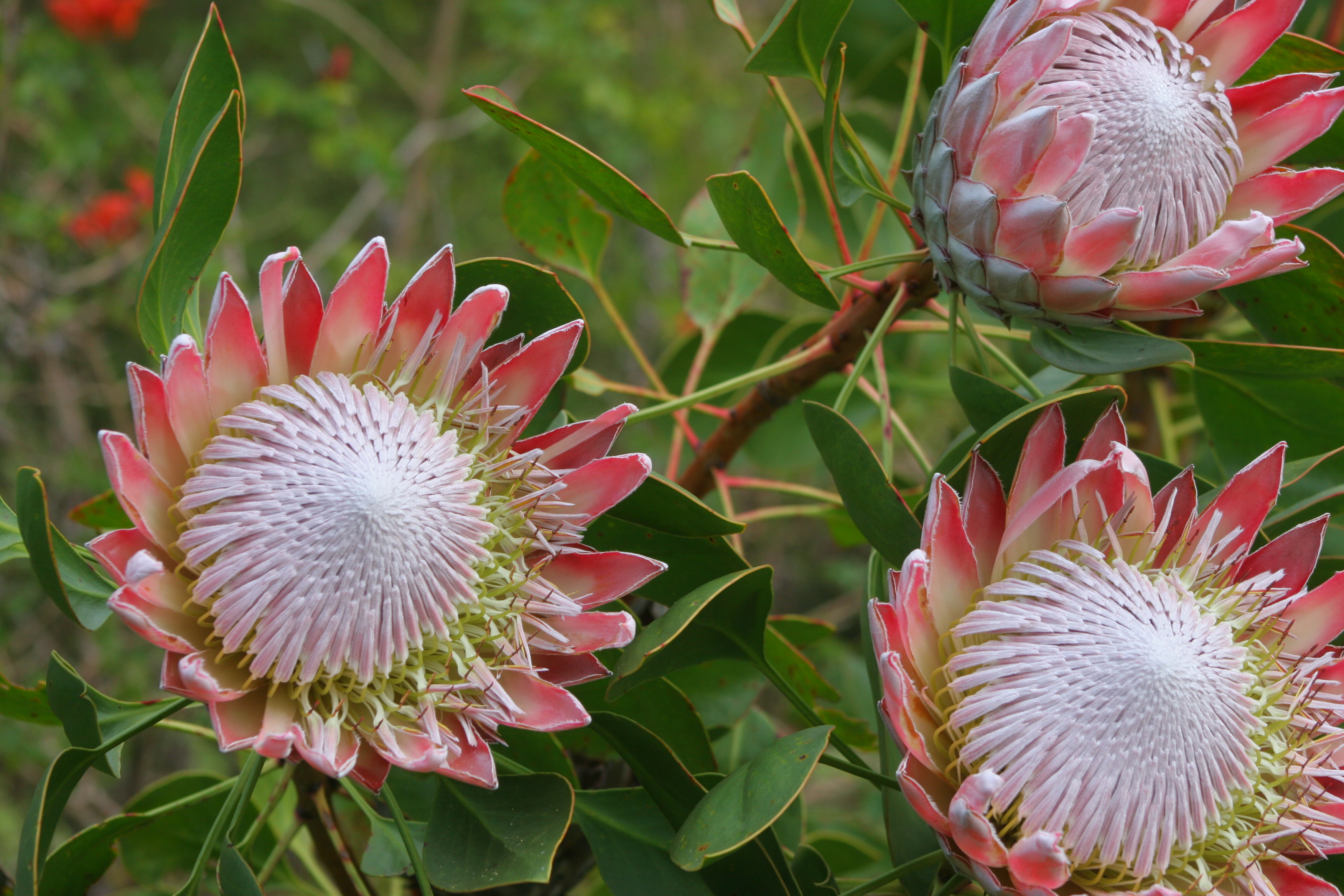 Protea cynaroides, taken at Kirstenbosch, South Africa